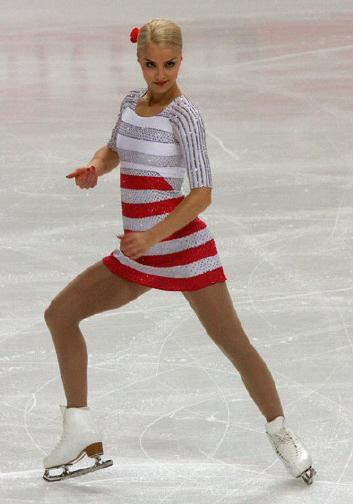 2009 European Figure Skating Championships - Kiira Korpi